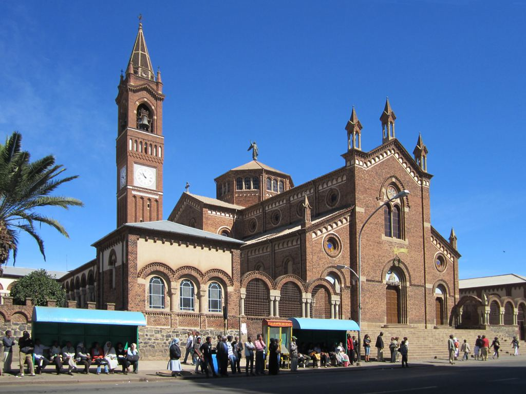 Our Lady of the Rosary Catholic Cathedral (1923) in Asmara, Eritrea, is one of the finest Lombard-style churches outside Italy. A plaque near the entrance lists Benito Mussolini as a donor.